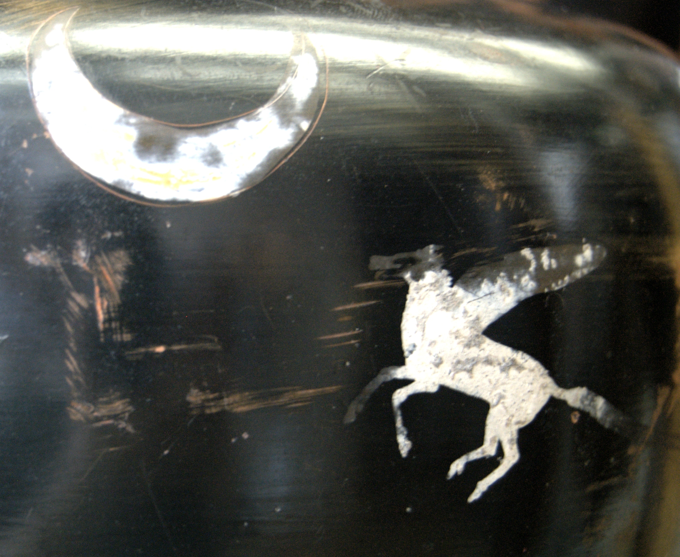 Pegasus and the moon. Attic red-figure hydria with decoration in superposed color, middle 5th century BC.